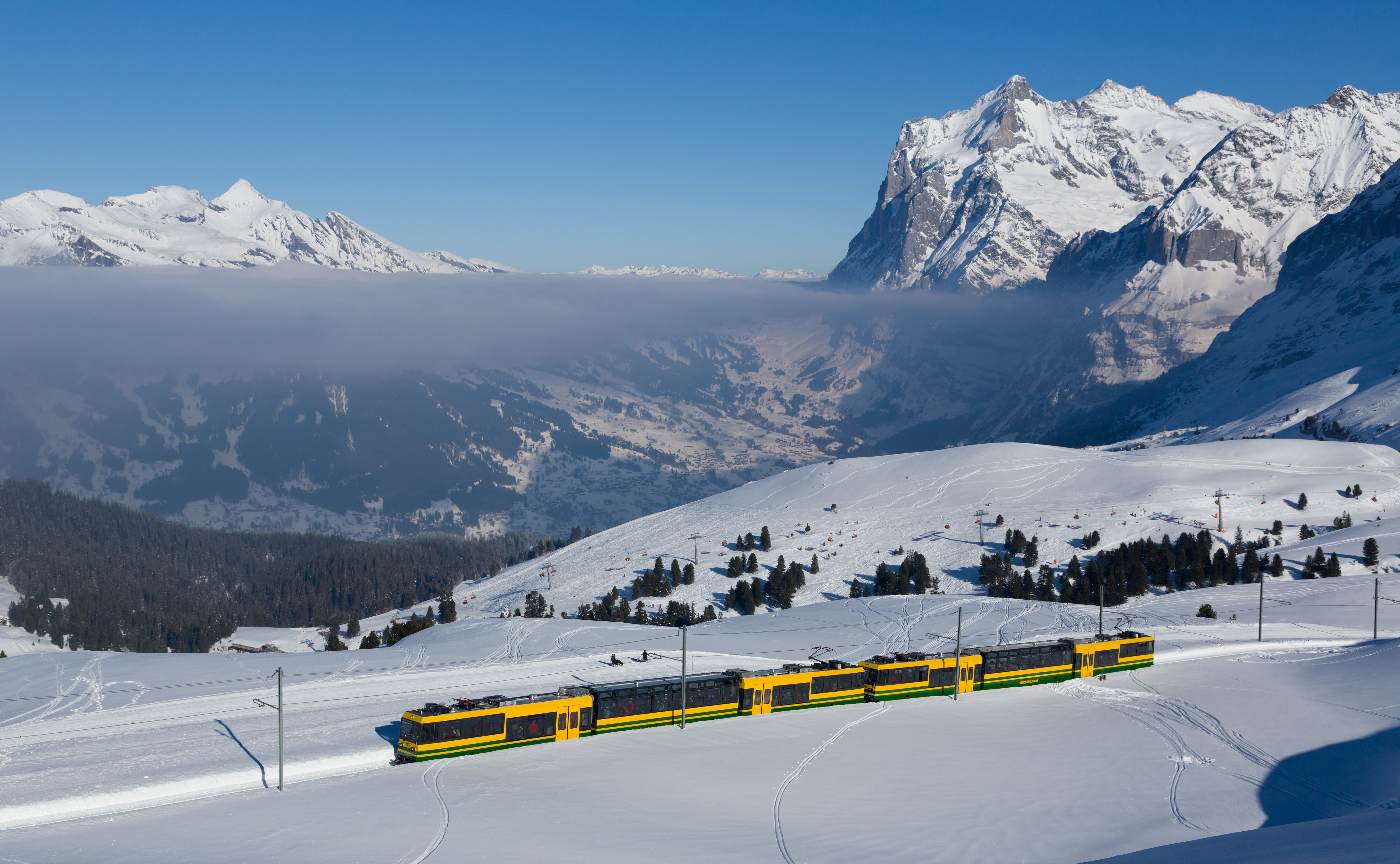 Wengernalpbahn Bhe 4/8 Pano between Alpiglen and Kleine Scheidegg, Switzerland. Grindelwald is visible down in the valley.